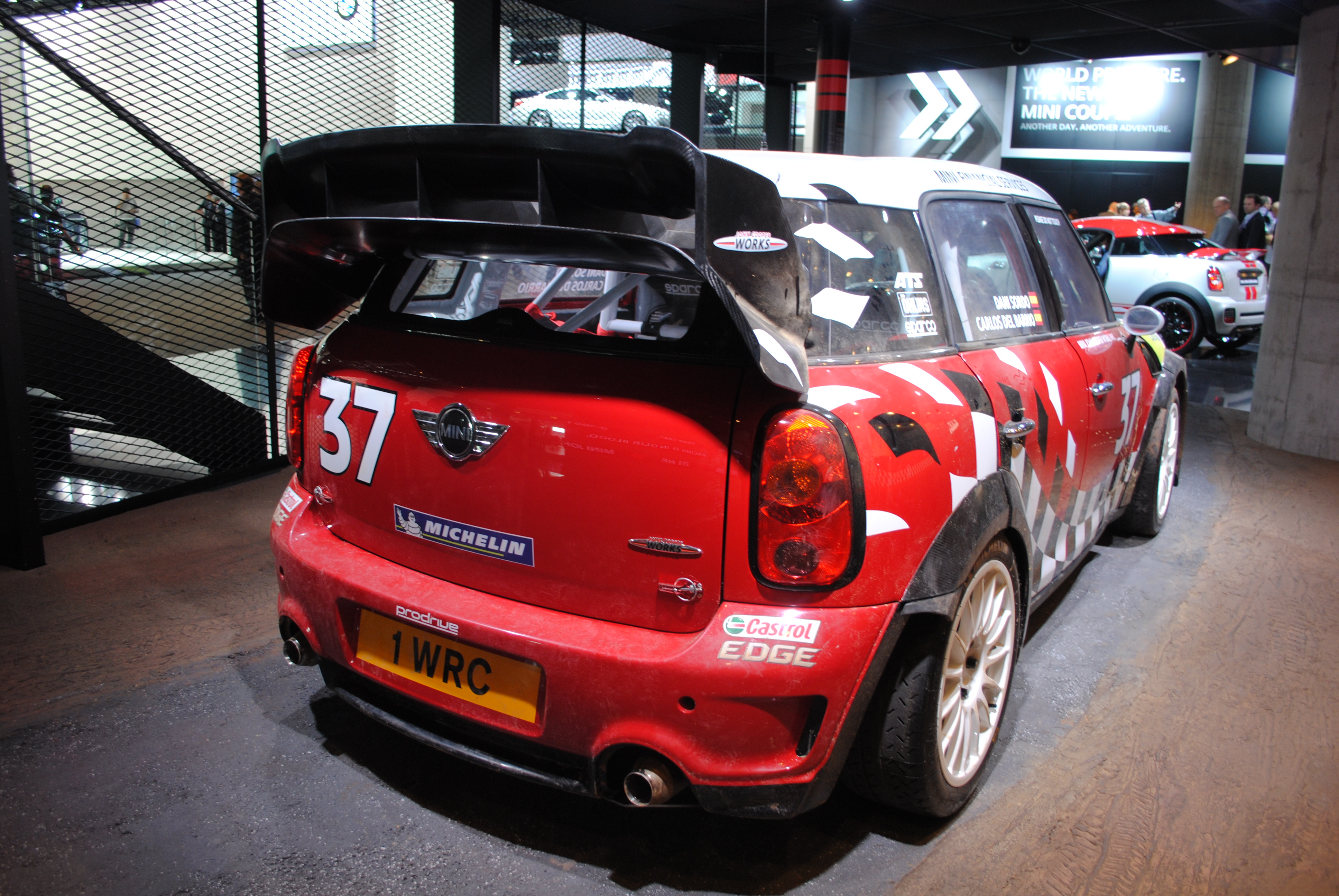 More photos and info